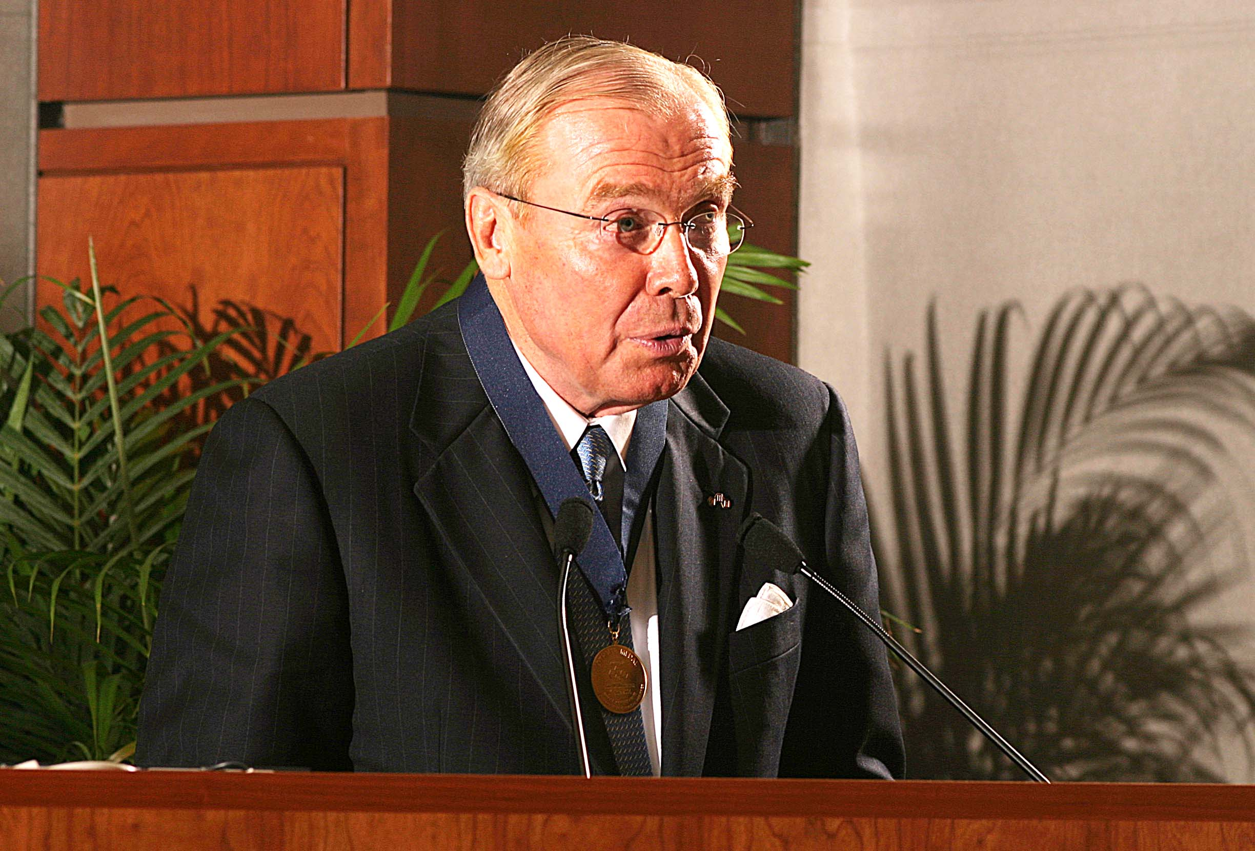 Photograph of Jon Huntsman, Sr., Taken at the 2004 Heritage Day Awards, Chemical Heritage Foundation, Philadelphia, PA, USA.